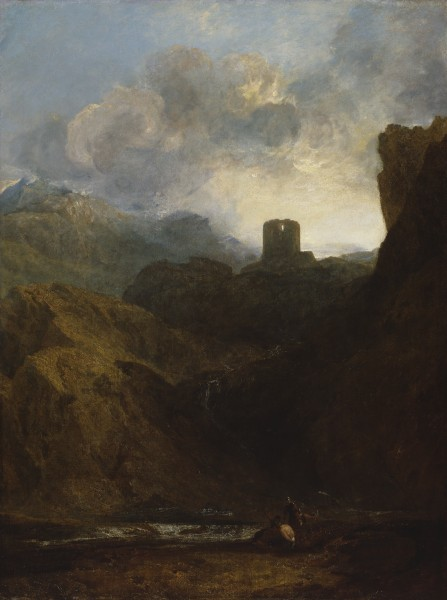 Diploma Work given by J.M.W. Turner, R.A., accepted 1802 When exhibited at the Royal Academy exhibition of 1800 the picture was accompanied by the following verse: How awful is the silence of the waste, Where nature lifts her mountains to the sky. Majestic solitude, behold the tower Where hopeless OWEN, long imprison'd, pin'd, And wrung his hands for liberty in vain. 'Owen' is probably the Welsh prince Owen Gogh, who was imprisoned from 1254 to 1277 by his brother in Dolbadern Castle. Turner depicts a bleak landscape with a solemn brooding atmosphere. The figures in the foreground are dwarfed by the immensity of the mountains.